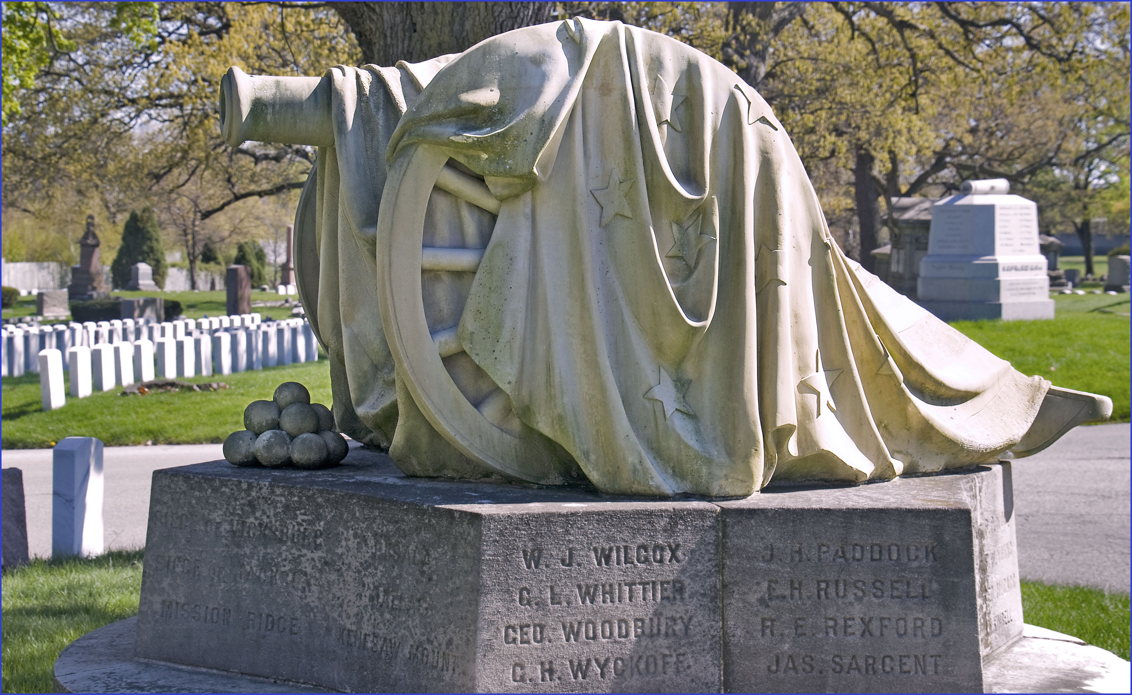 Battery "A", 1st Regiment Illinois Volunteer Light Artillery, originally known as "Smith's Chicago Light Artillery," was an artillery battery that served in the Union Army during the American Civil War. Battery A was mustered into service in Chicago (IL) in April 1861 for three-months service. The Battery was subsequently reorganized for three years of Federal service as Battery "A" in July 1861. The battery was mustered out on July 3, 1865. Battles that Battery A fought in included Fort Donelson (TN), Shiloh (TN), Port Gibson (MS), Raymond (MS), Jackson (MS), Champion Hill (MS), Vicksburg (MS), Chattanooga (TN), Kennesaw Mountain (GA), Atlanta (GA), and Nashville (TN). The memorial above was designed by sculptor Leonard Volk, who had designed several of the monuments in Rosehill Cemetery. The monument lists the battles the unit participated in and a roster of those killed. Image by Ron Cogswell on Wednesday, April 11, 2012, using a Nikon D80 and minor Photoshop effects.